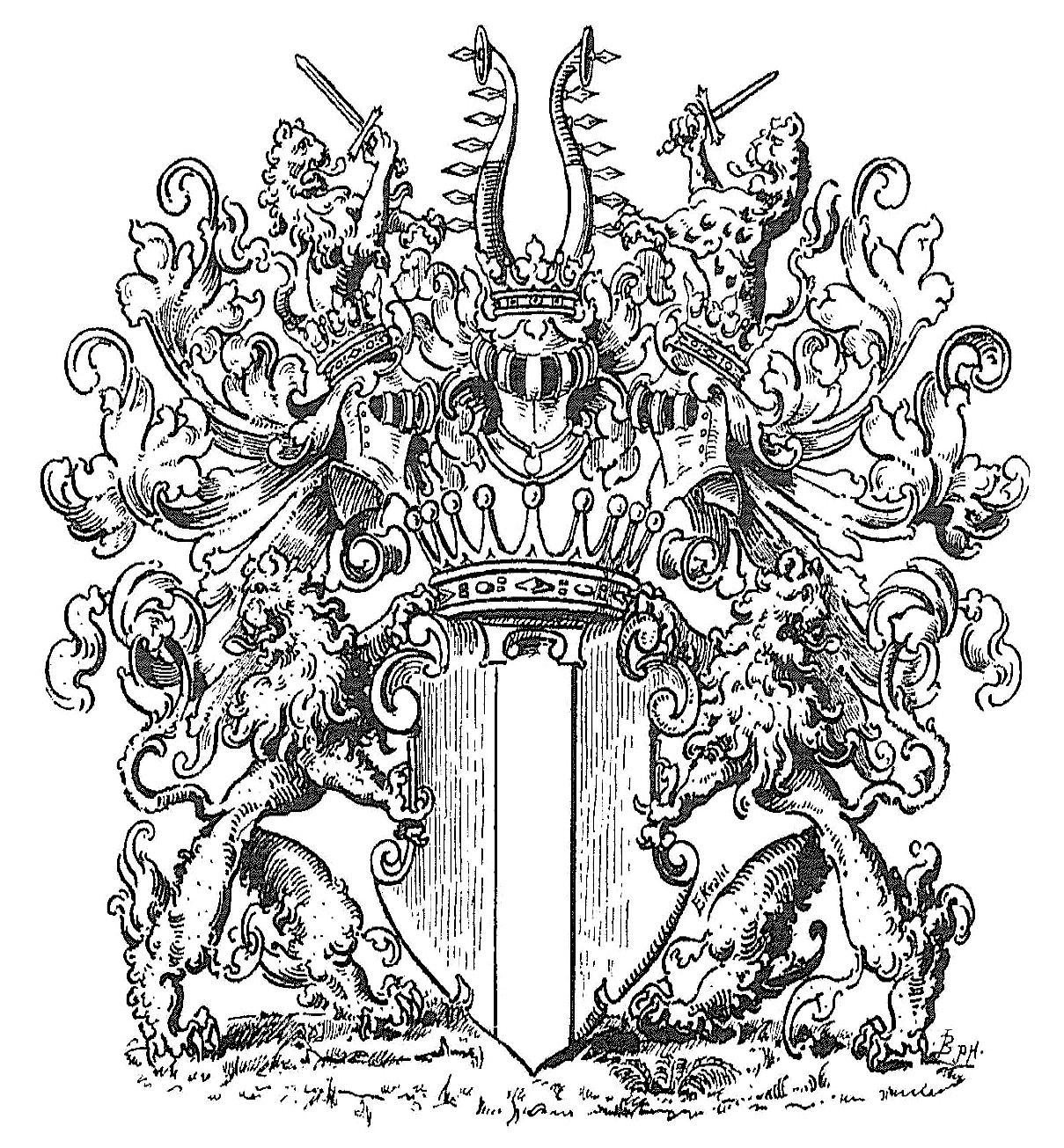 Coat of arms of couunts Mitrovsky of Nemyšl.